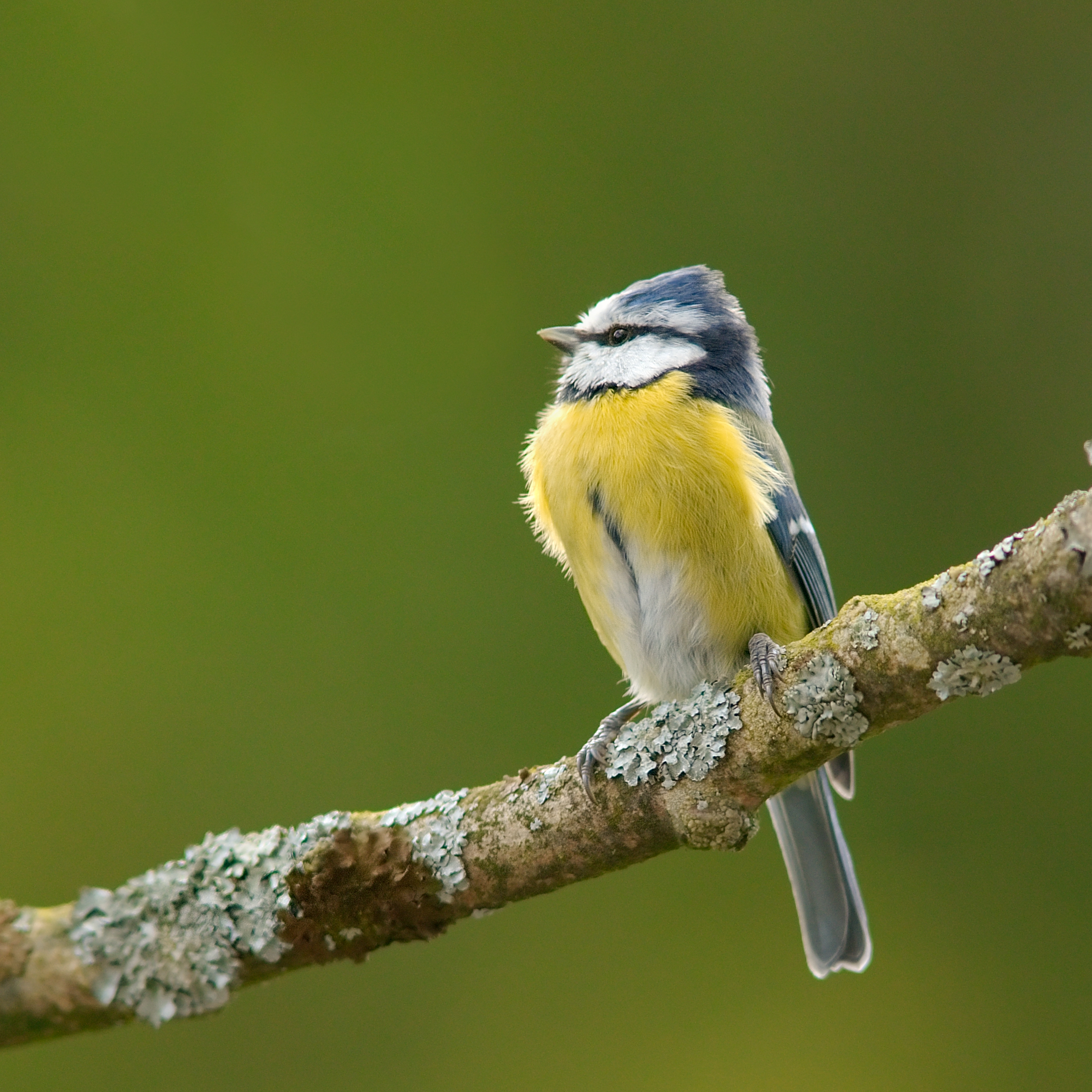 Blue Tit, Cyanistes caeruleus